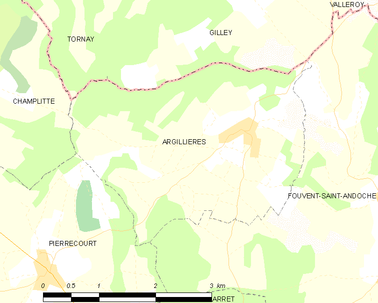 Map of French municipality